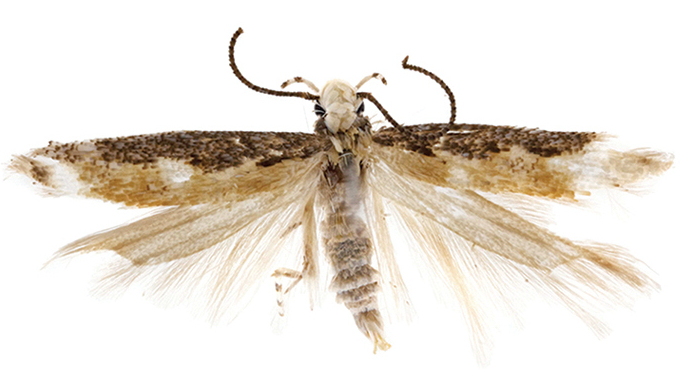 Neopalpa donaldtrumpi, male paratype, from Imperial County, California